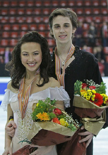 Madison Chock & Greg Zuerlein during the ice dancing medals ceremony at the 2009 World Junior Championships.